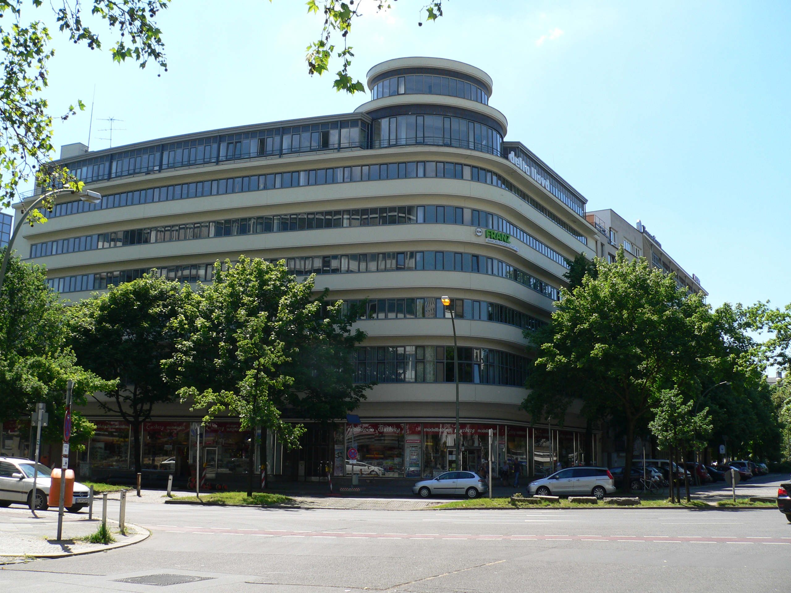 Berlin-Wilmersdorf Lietzenburger Straße